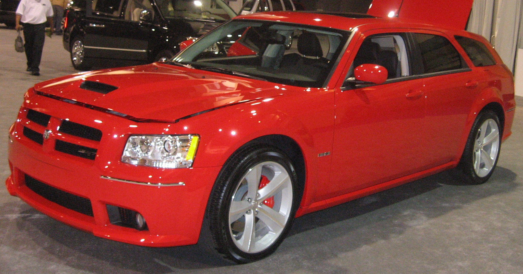 2008 Dodge Magnum photographed at the 2008 Washington DC Auto Show.